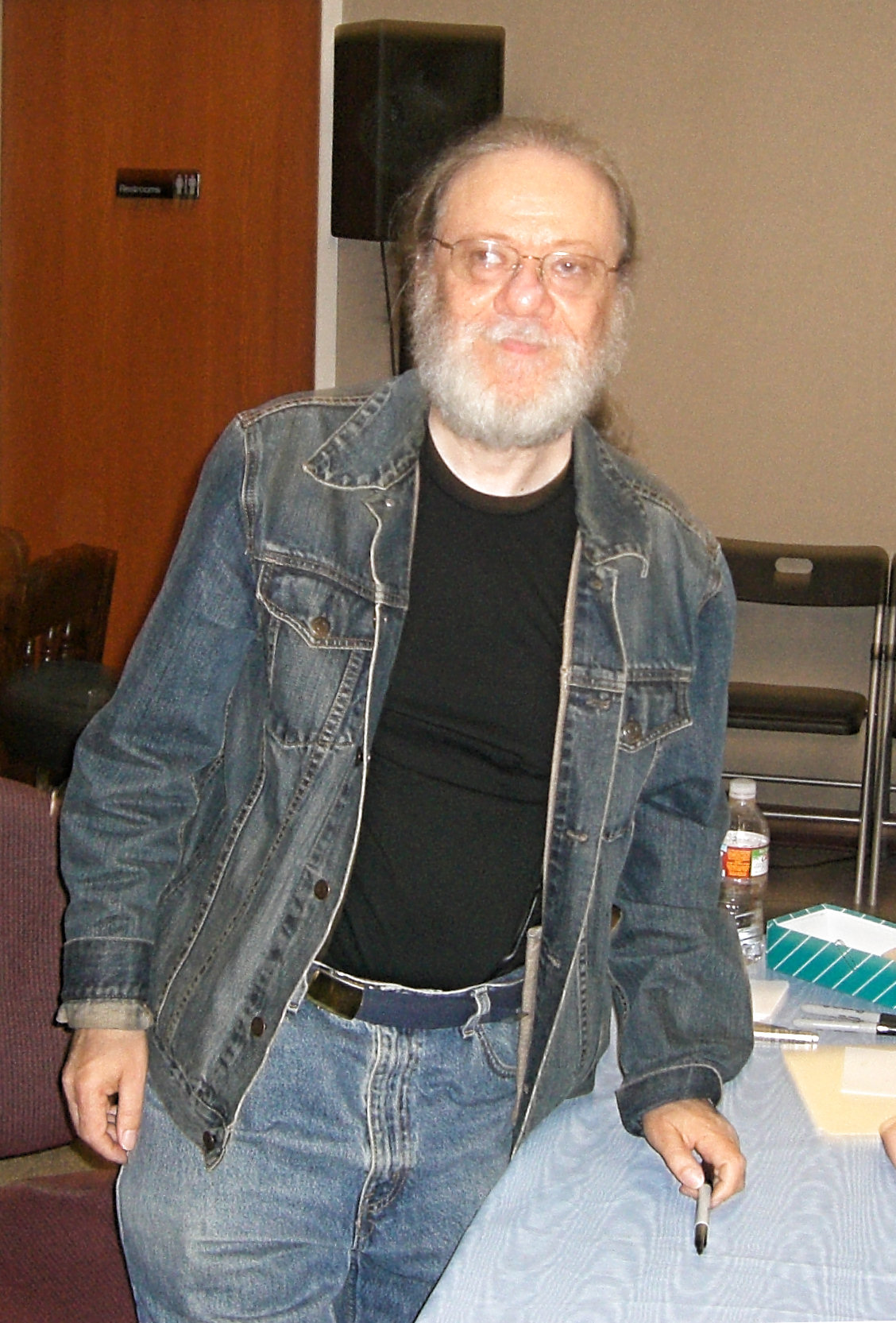 Tommy Ramone in an autograph session